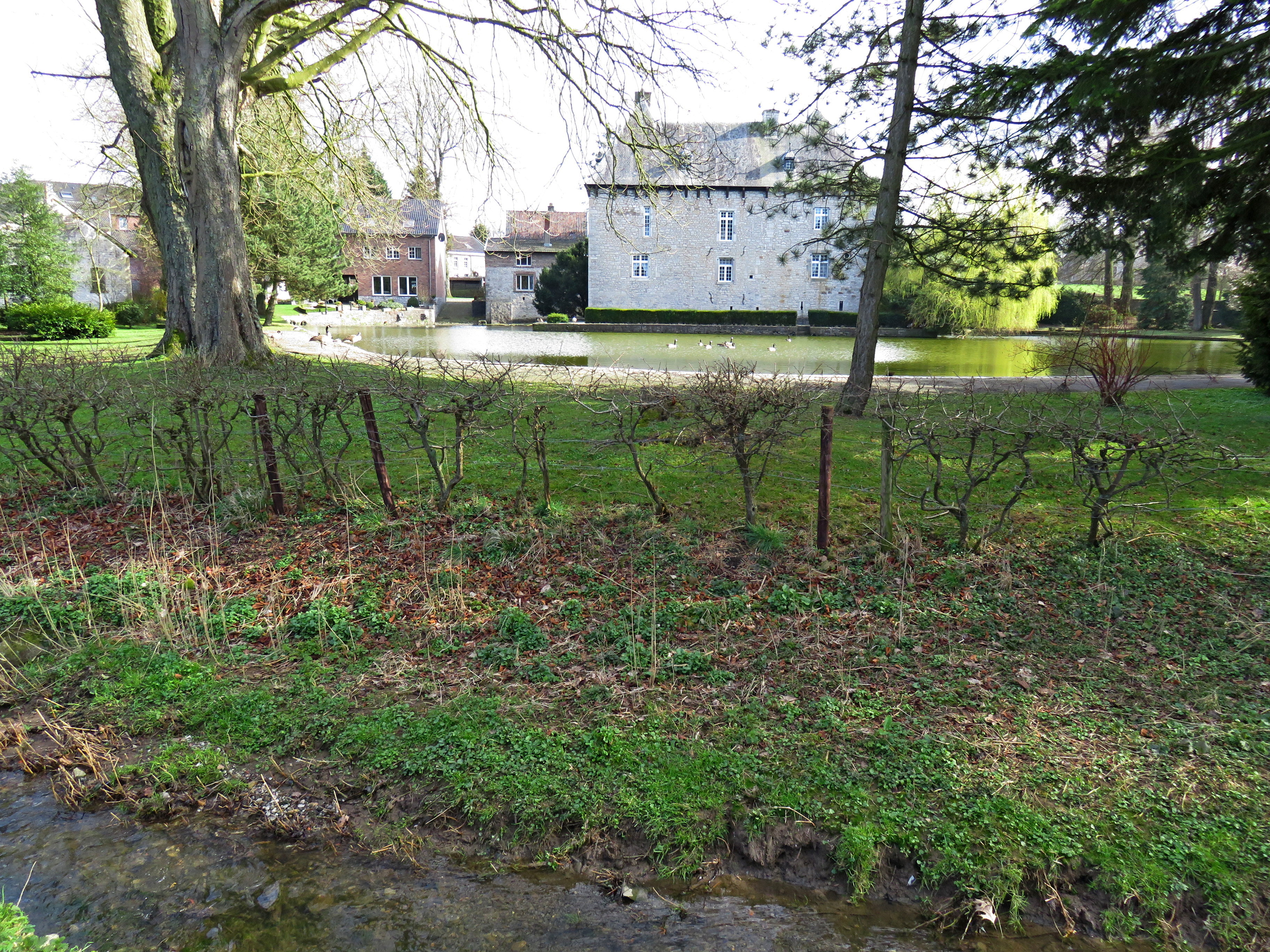 Water castle Amstenrath in Eynatten (Be) with in front the small river Oehl